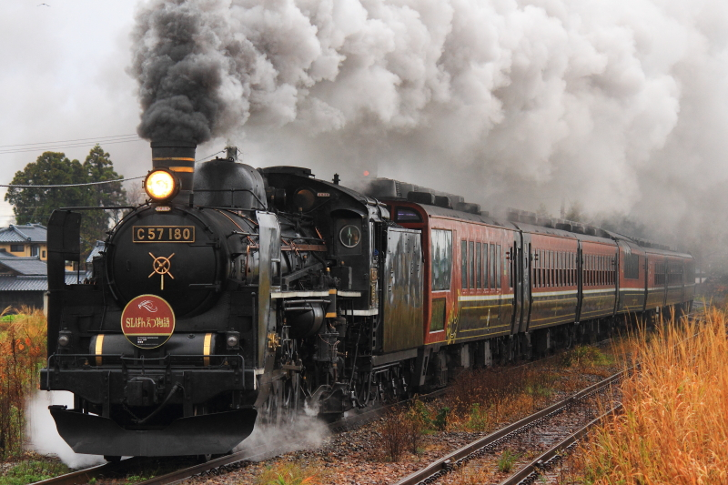 JR East Class C57 steam locomotive C57 180 approaching Shinseki Station on the Banetsu West Line with the SL Banetsu Monogatari trainset